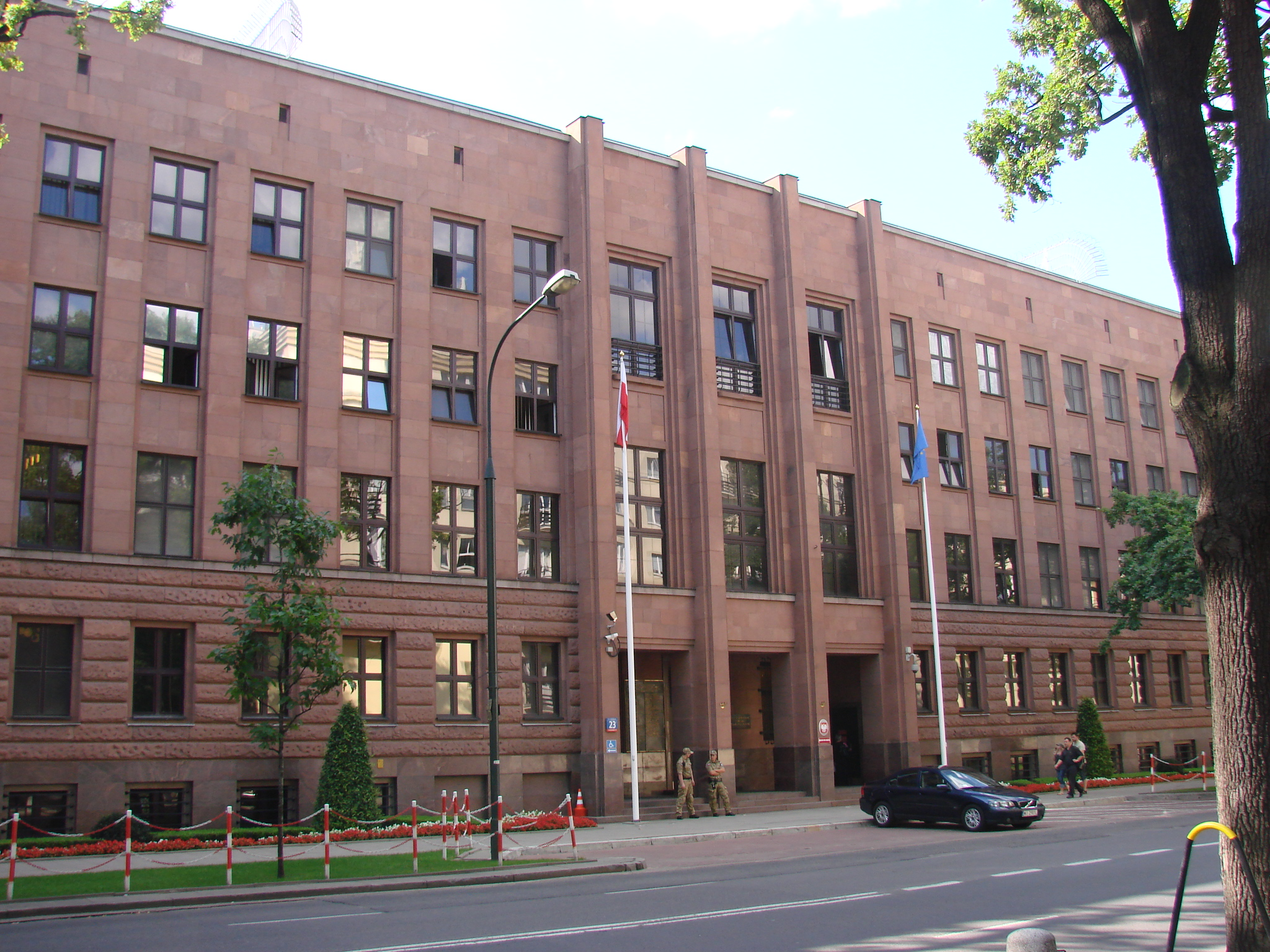 Ministry of Foreign Affairs of the Republic of Poland Unknown